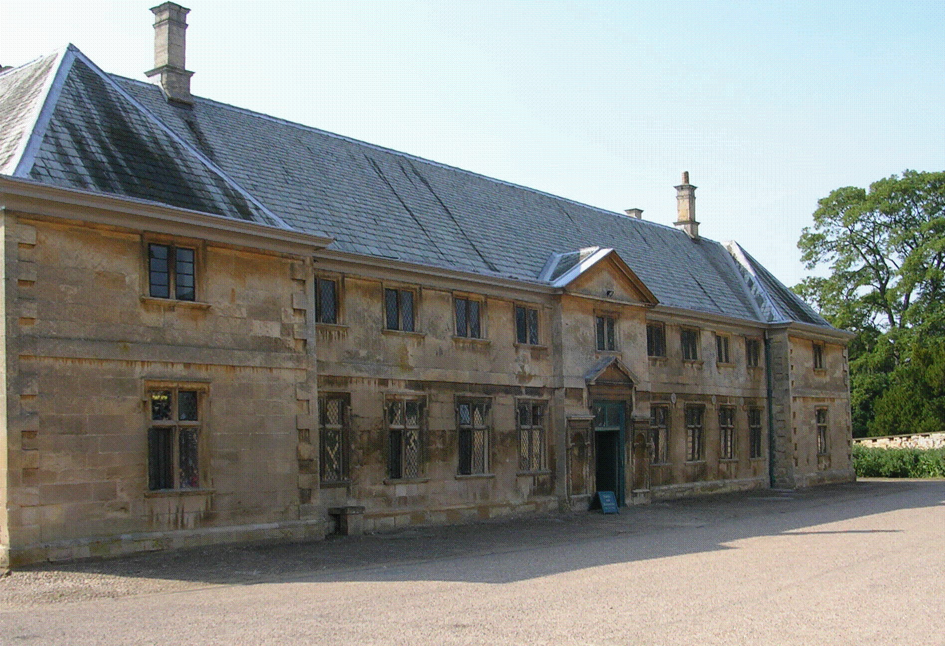 Stables at Belton House. England.